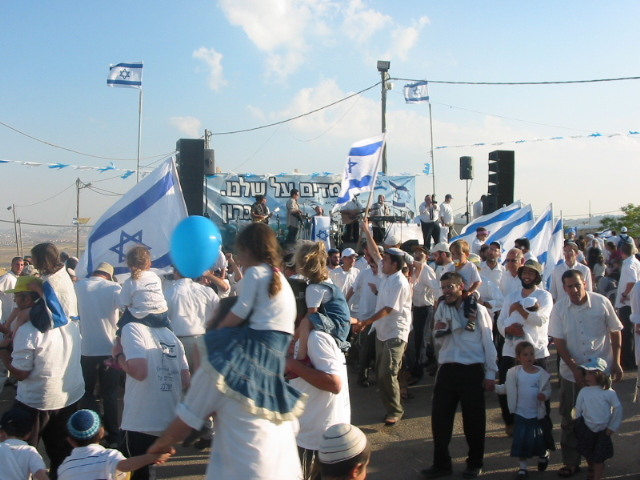 Rall at Migron on Yom Haatzmaut 5768/2008